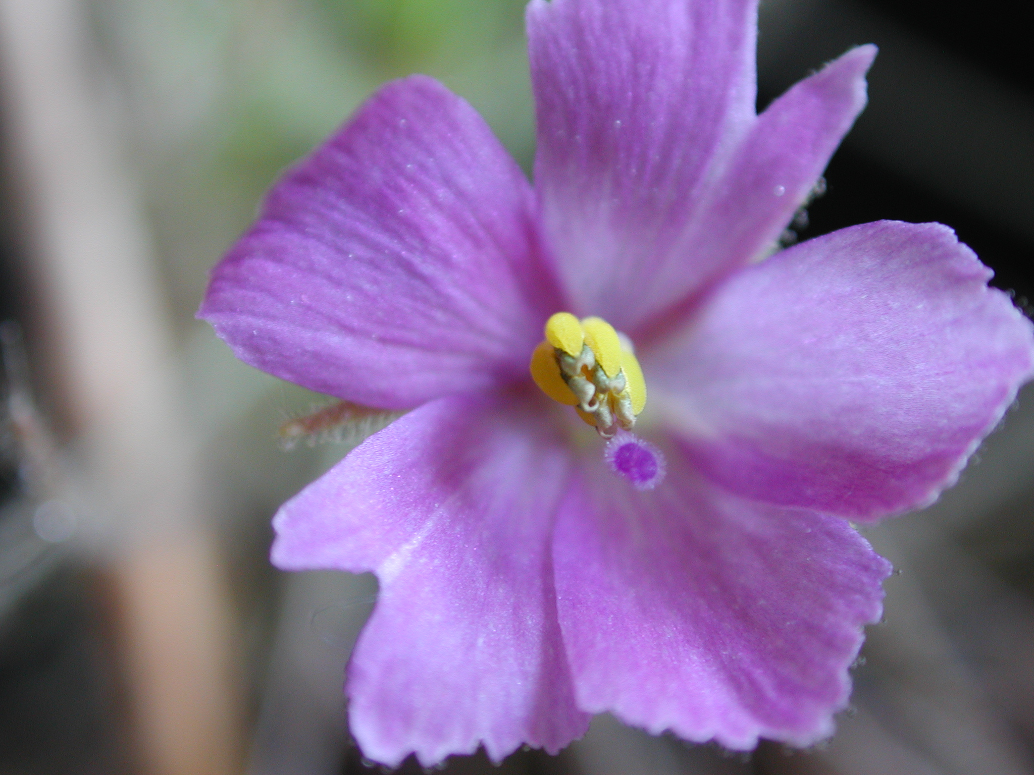 flower of Byblis filifolia growing in culture